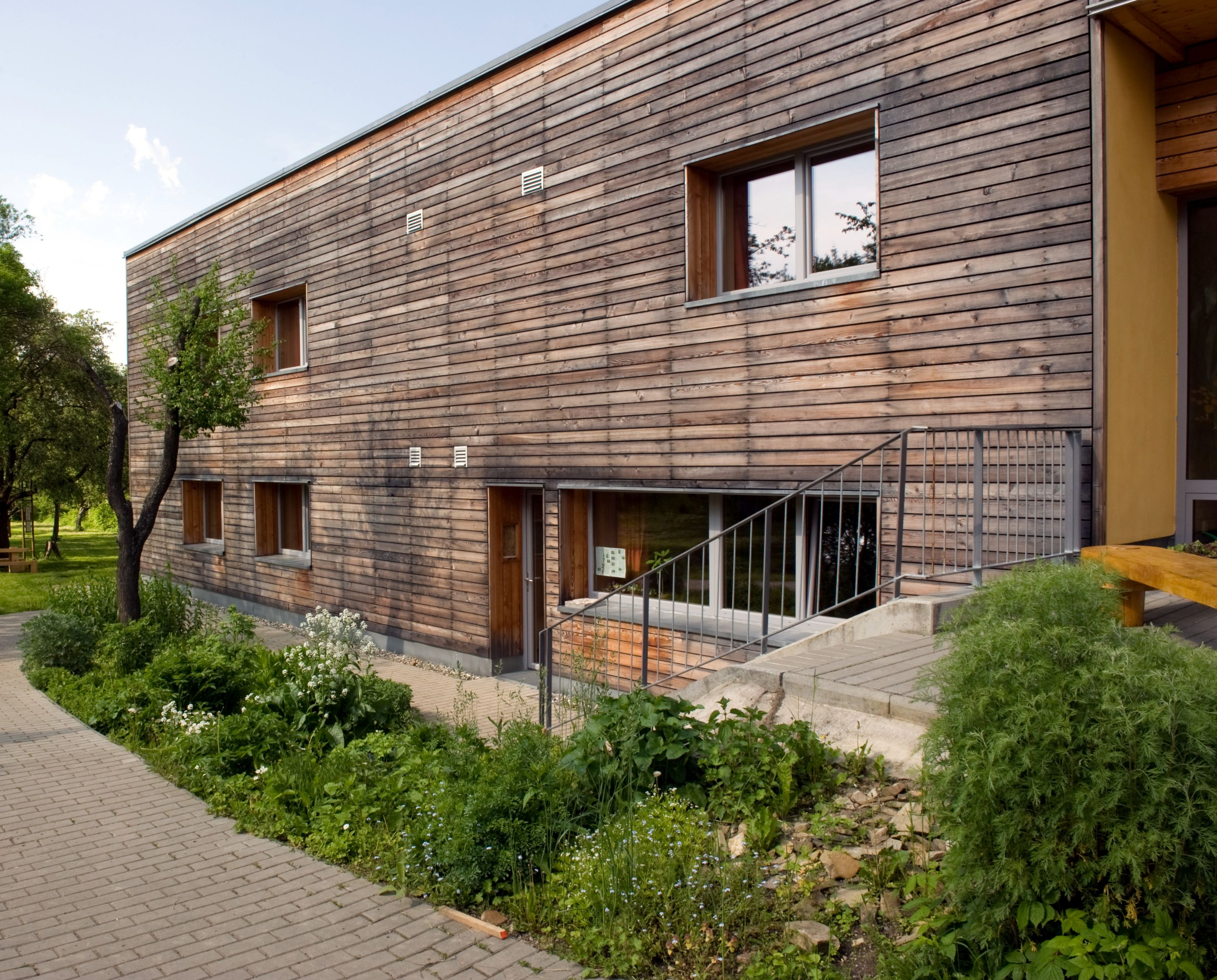 Building of Centre Veronica Hostětín in Hostětín (Czech republic), insulated with straw bales